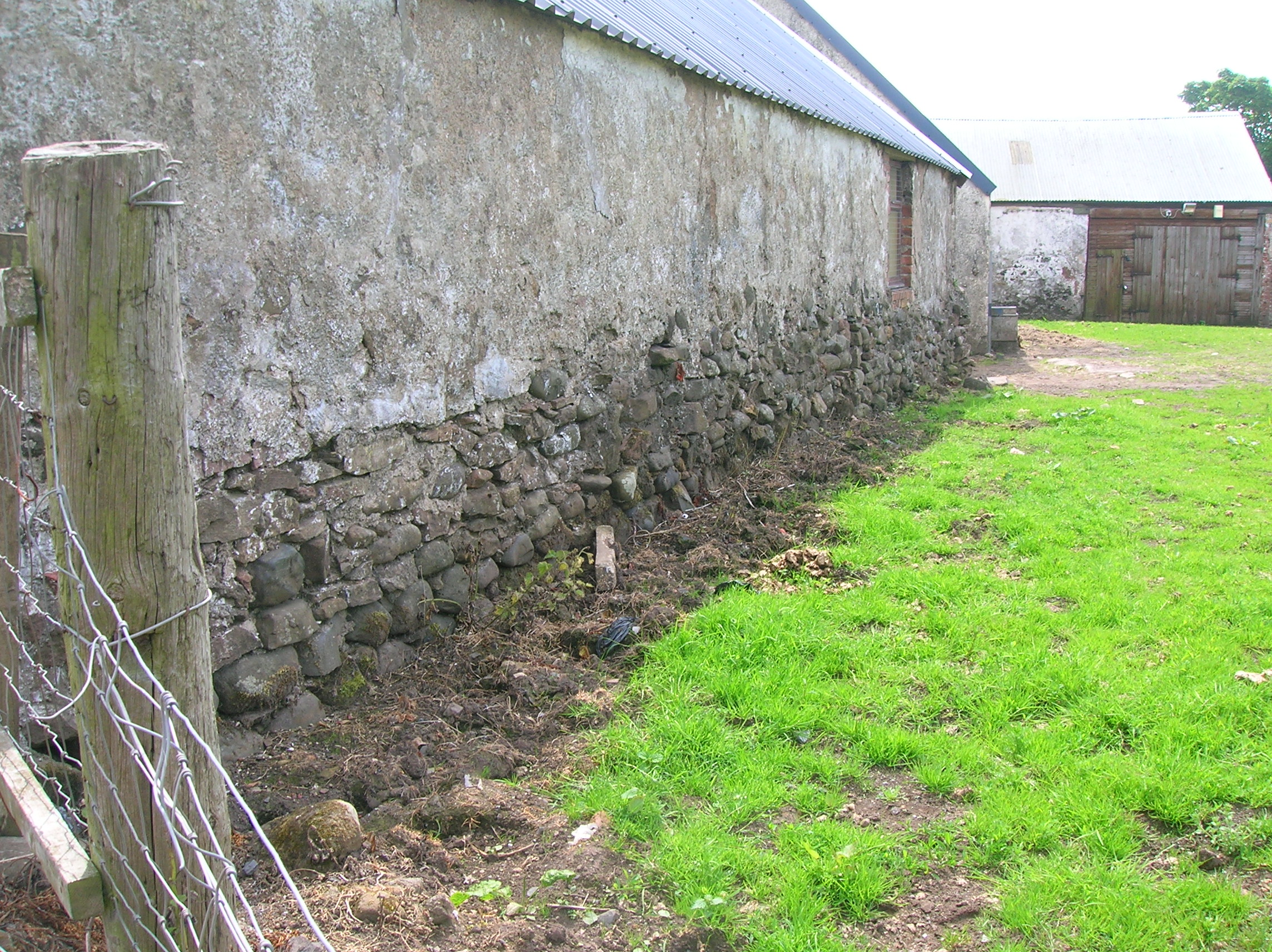 The threshing mill and dam wall, Montfode, Ardrossan, North Ayrshire, Scotland.